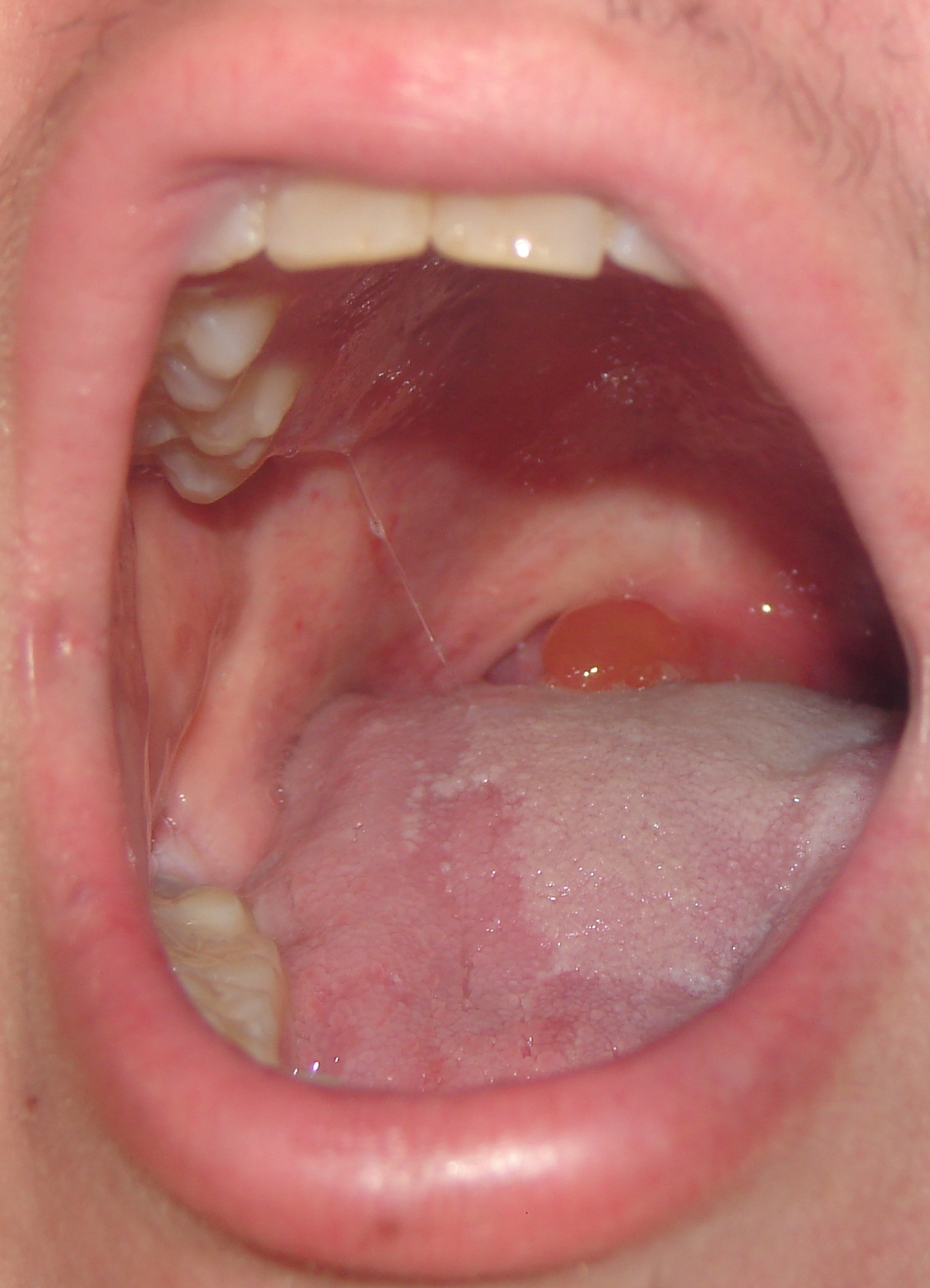 Uvulitis